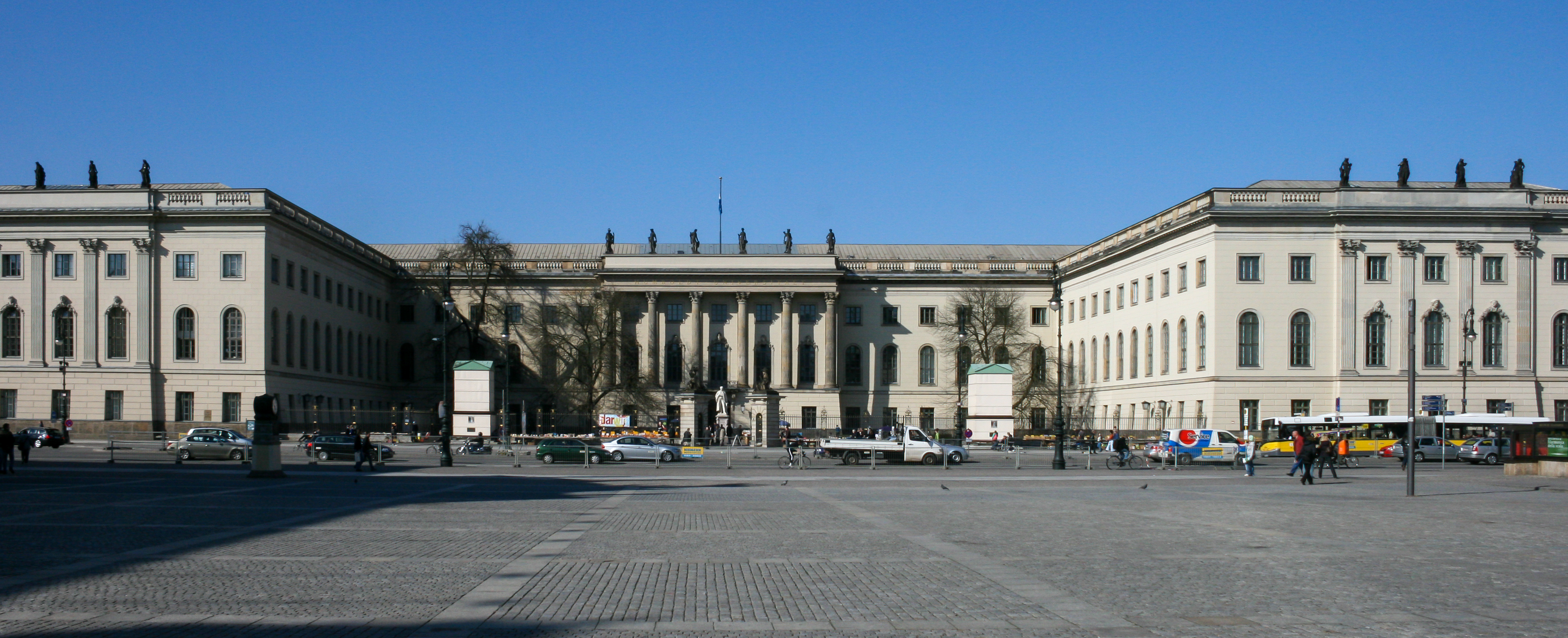 Humboldt University - Main building. Berlin.